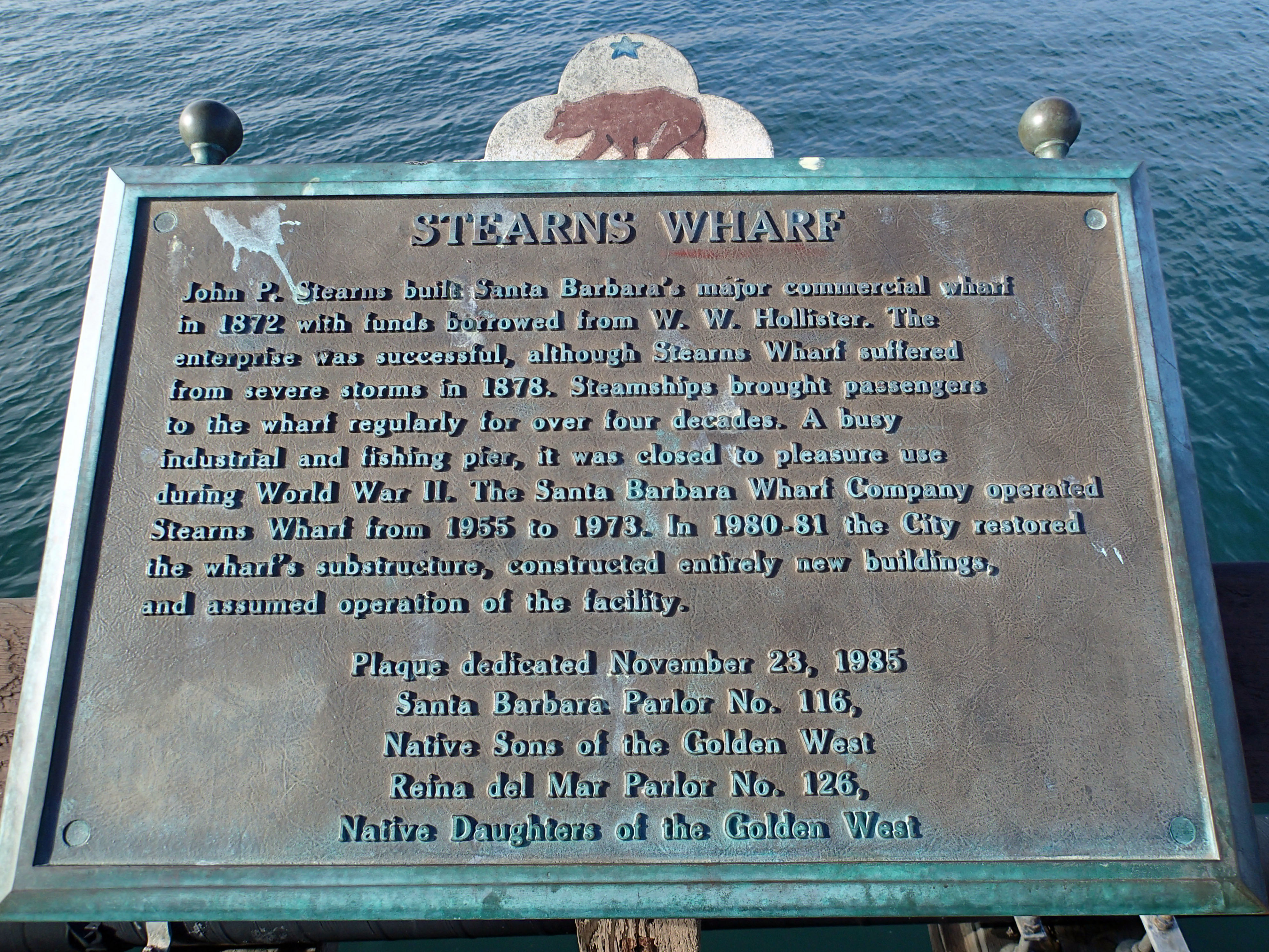 Brass plaque on Stearn's Wharf, Santa Barbara, CA, Nov 2012